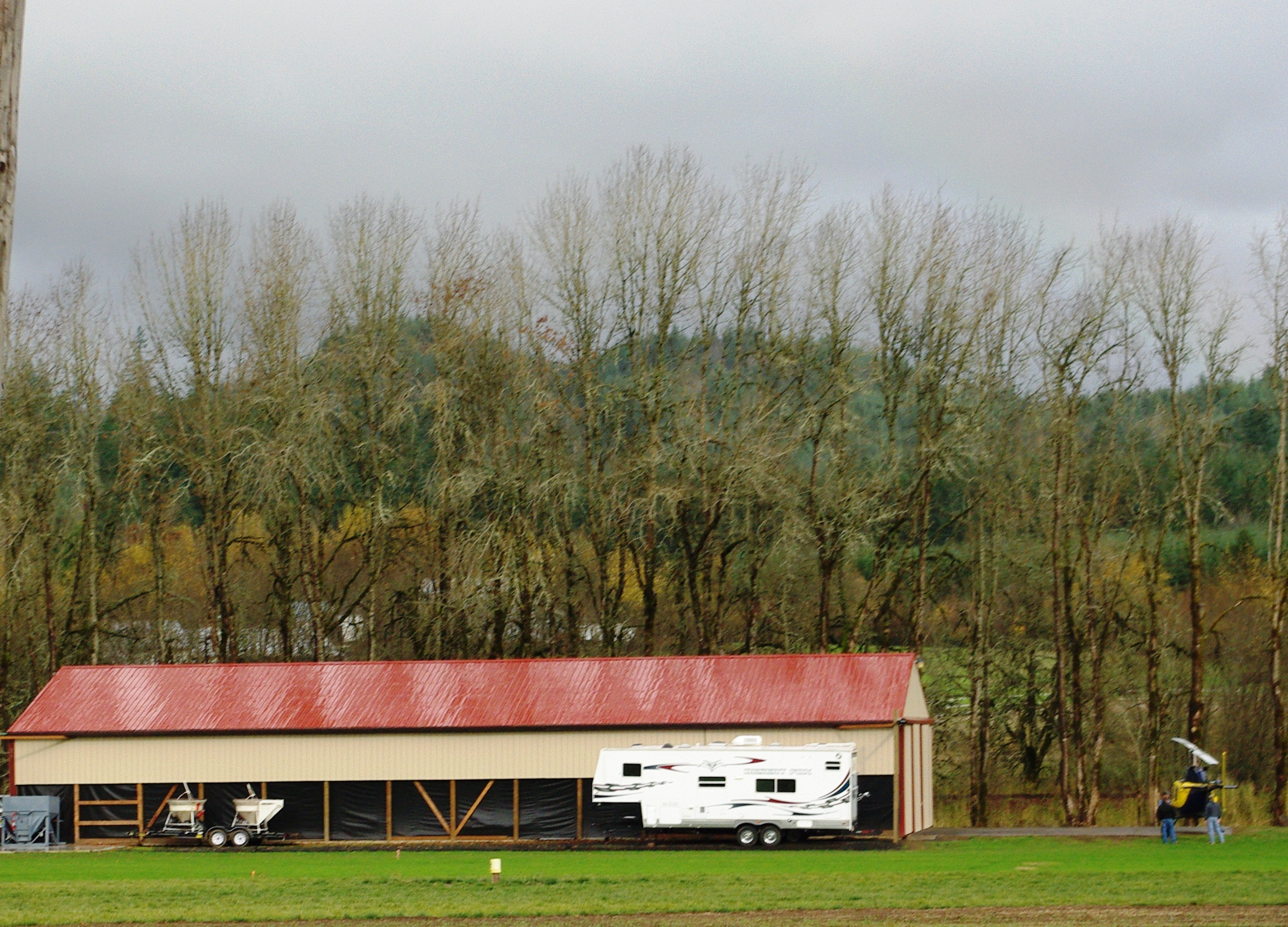 Apple Valley Airport at Buxton, Oregon, USA.